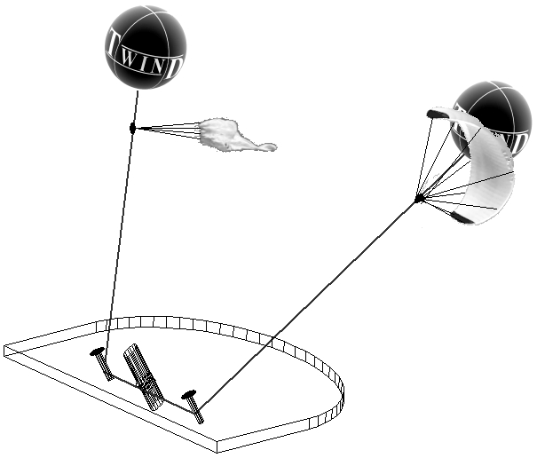 Twind Application